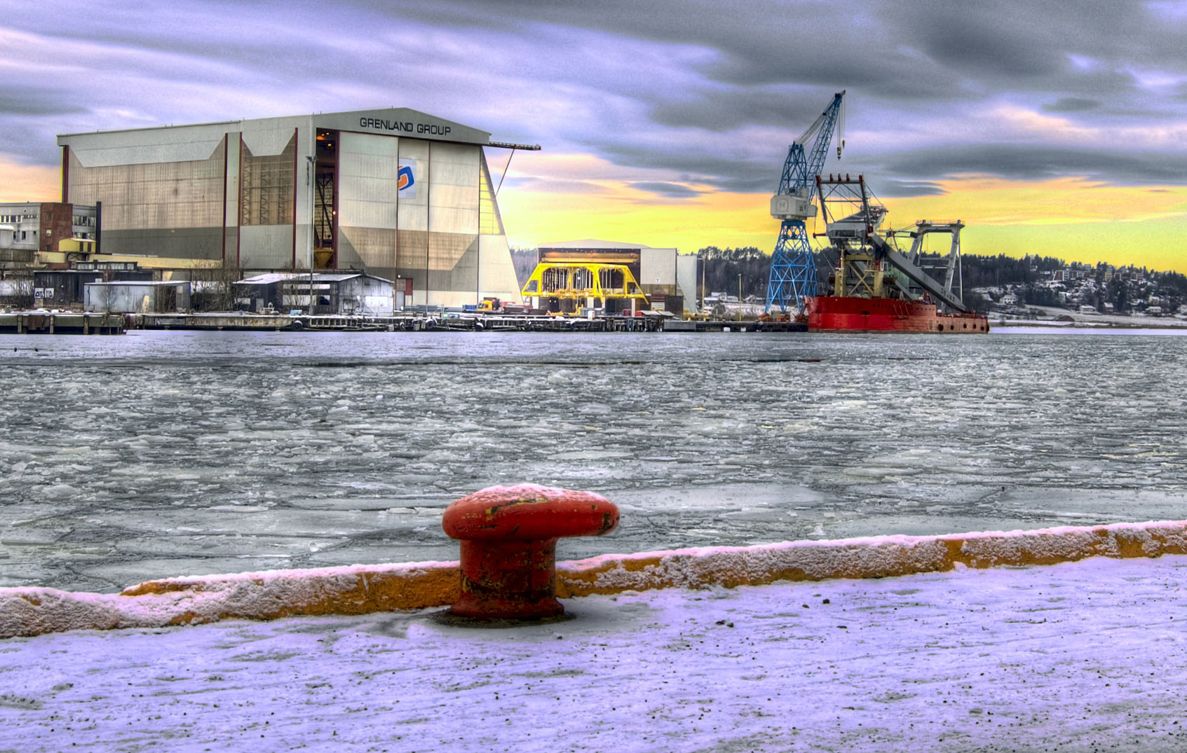 Grenland Group's yard in Tønsberg, Norway